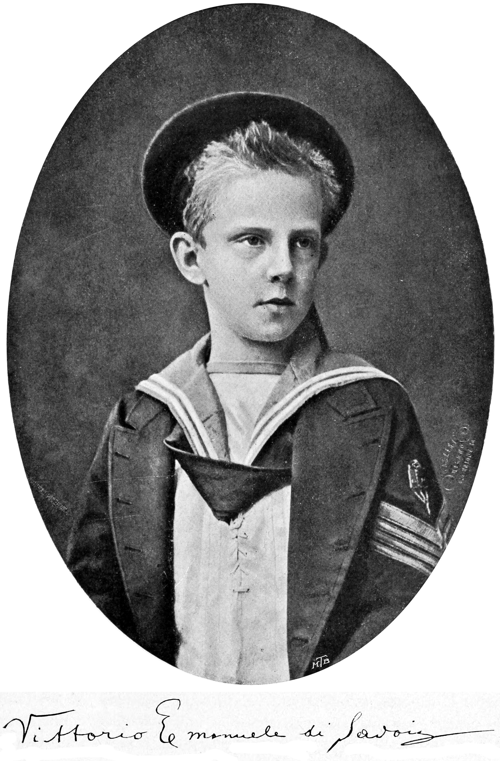 Image from book: Leopoldo Pullè, Patria Esercito Re, Ulrico Hoepli, Milan, 1908. - Victor Emmanuel III of Italy